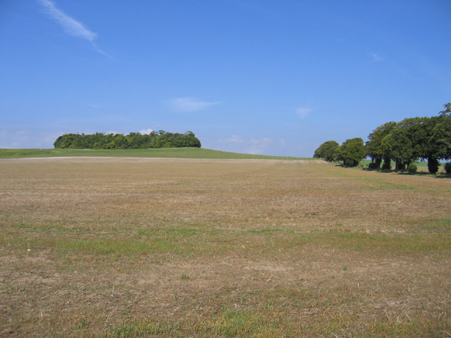 Goffers Knoll, Melbourn, Cambs. View NW from the A505; the hill is topped by a Bronze Age burial ground.